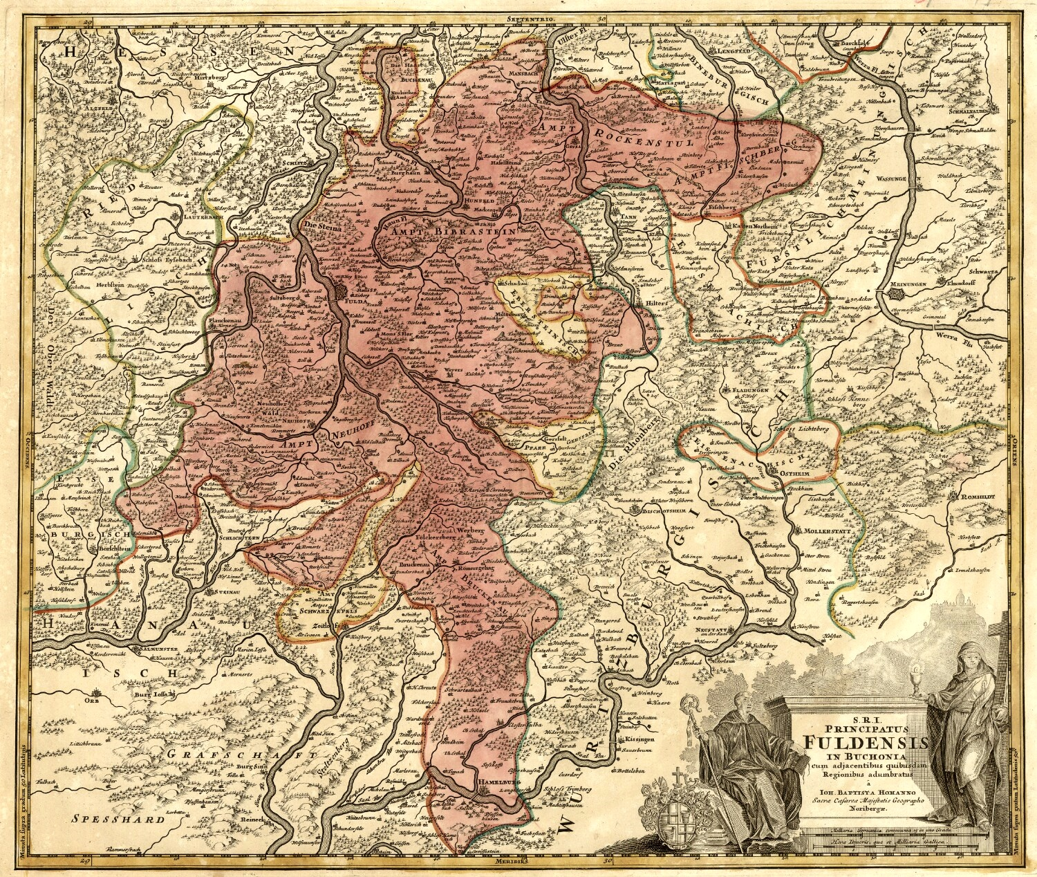 Early 18th century map showing the vast territorial domain of the Princely Abbey of Fulda. Due to its size and population, Fulda was elevated to the status of a prince-bishopric in 1752. Map published by Johann Baptist Homann between 1716 and 1726.